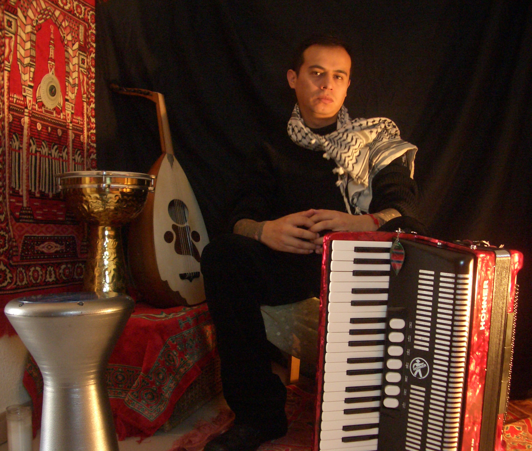 Hernan Ergueta in the year 2009 (Barcelona - Spain)